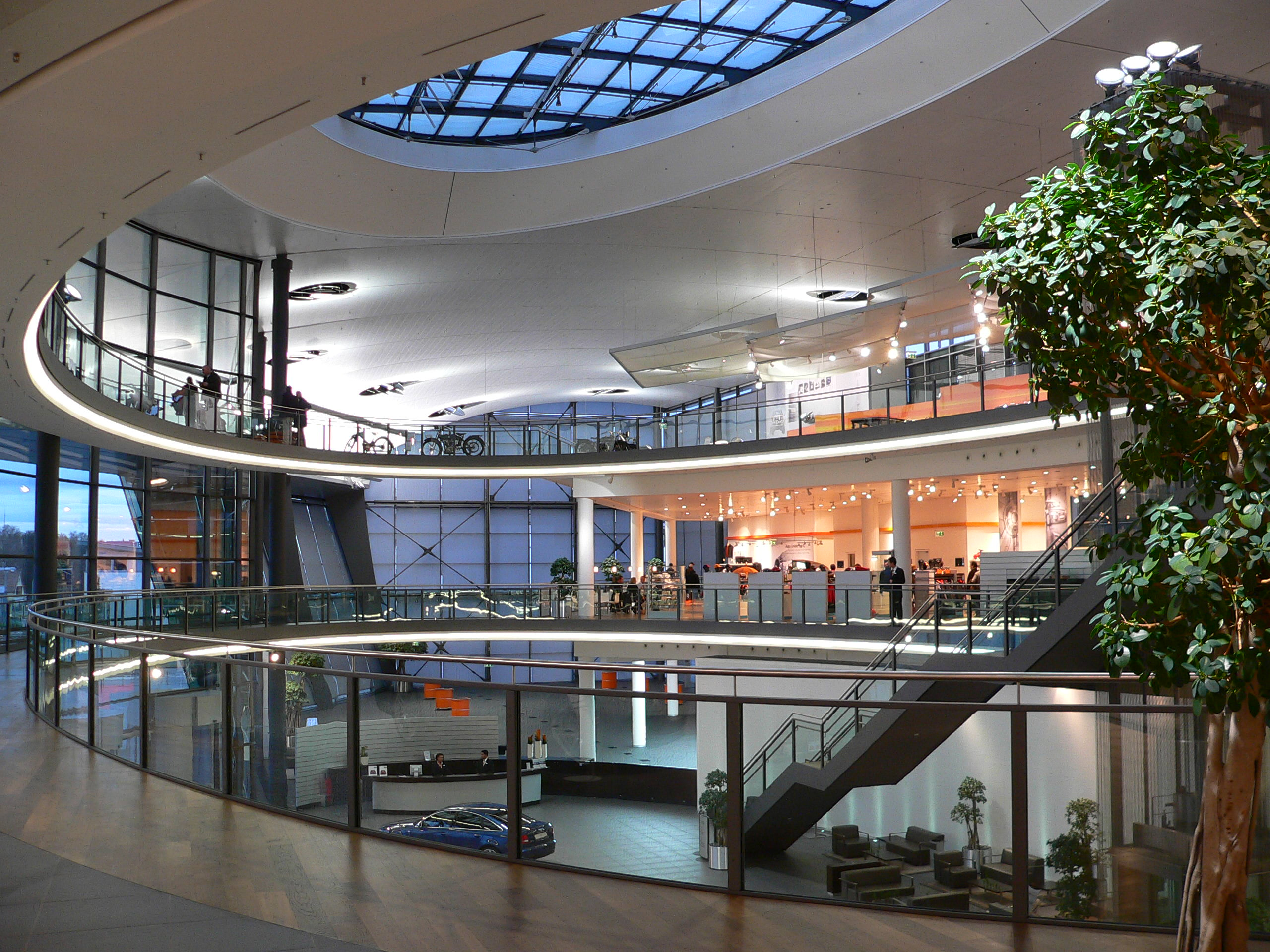 Interior view of the Audi-Forum of the Audi AG in the City Neckarsulm/Germany (view towards south-west)